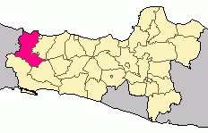 Batang county, Central Java province, Indonesia